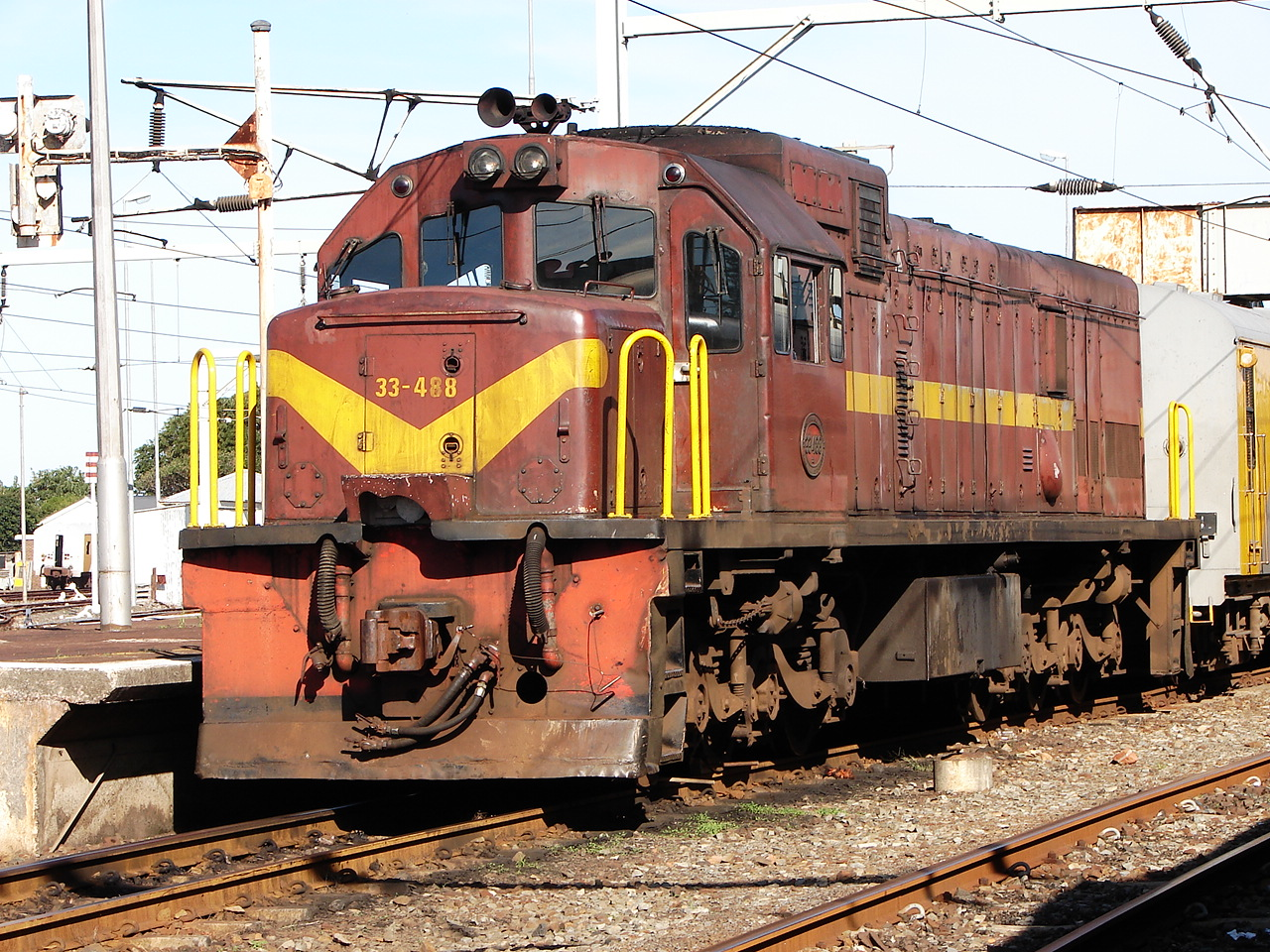 South African Class 33-400 33-488Builder's Number: GE 36617Type: GE U20CLocation: East London, Eastern Cape